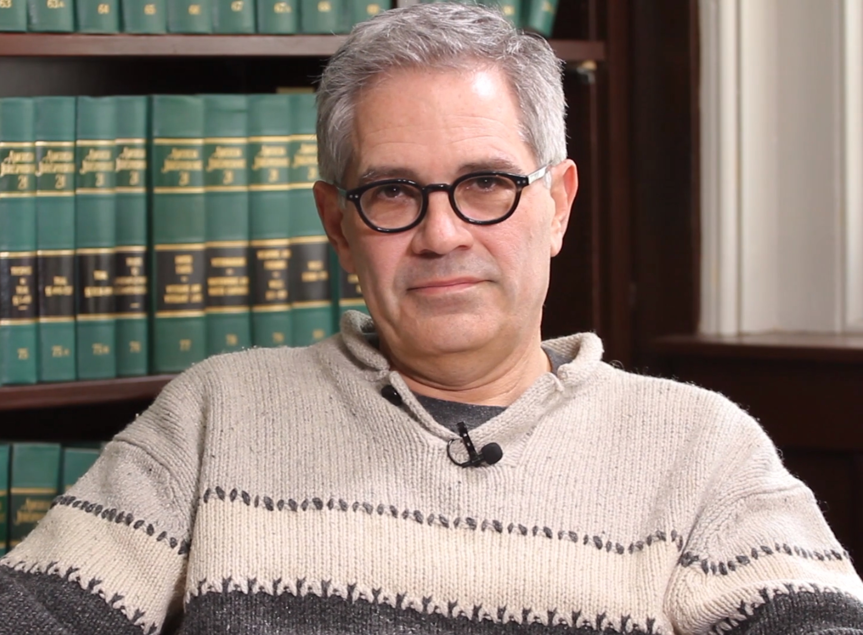 Larry Krasner, Candidate for Philadelphia District Attorney Photographed and edited by Michael Candelori. // Still photographs used courtesy of Harvey Finkle, Hanbit Kwon, and BG Productions. // Thanks to Larry Krasner for his cooperation.